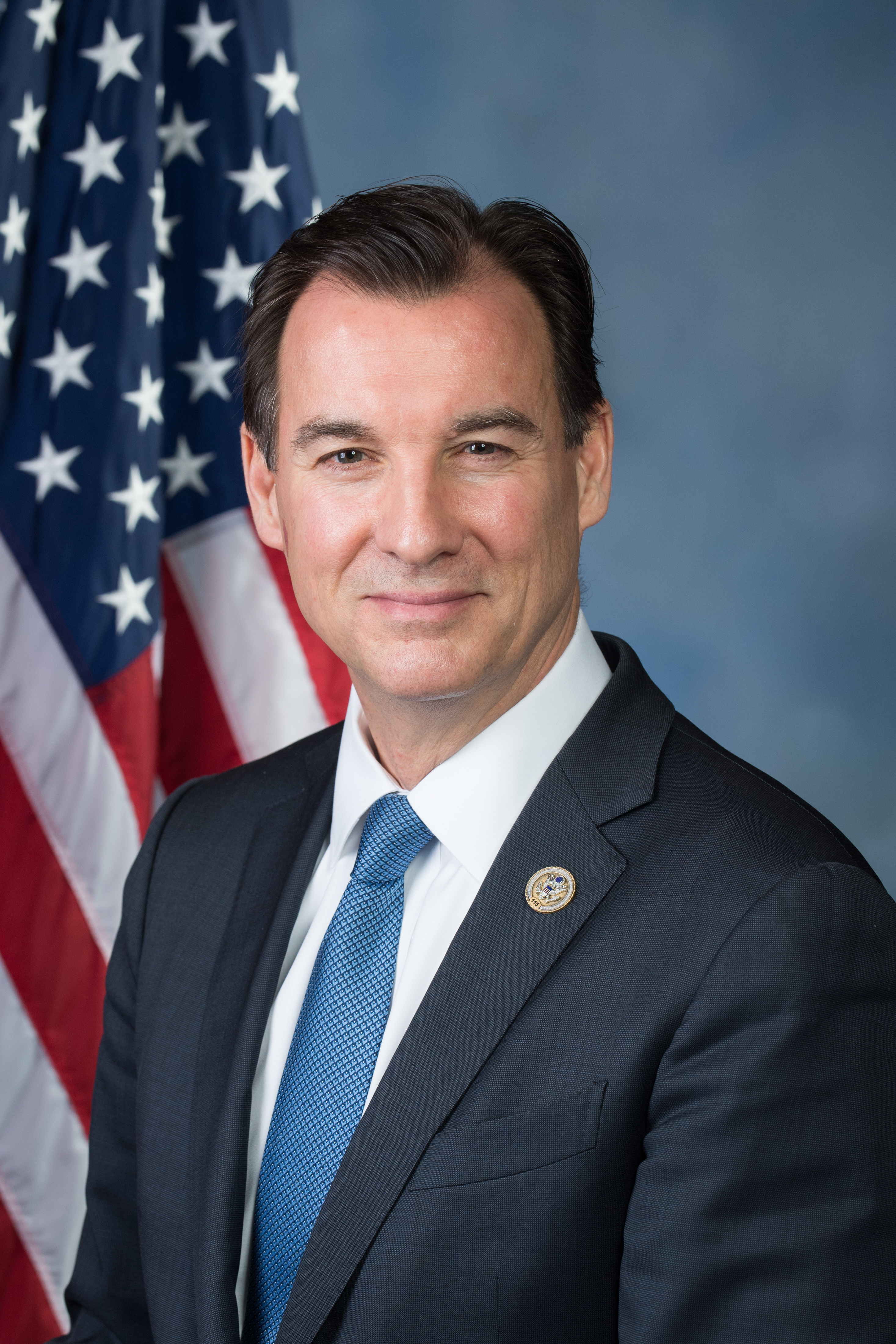 Thomas Suozzi official photo